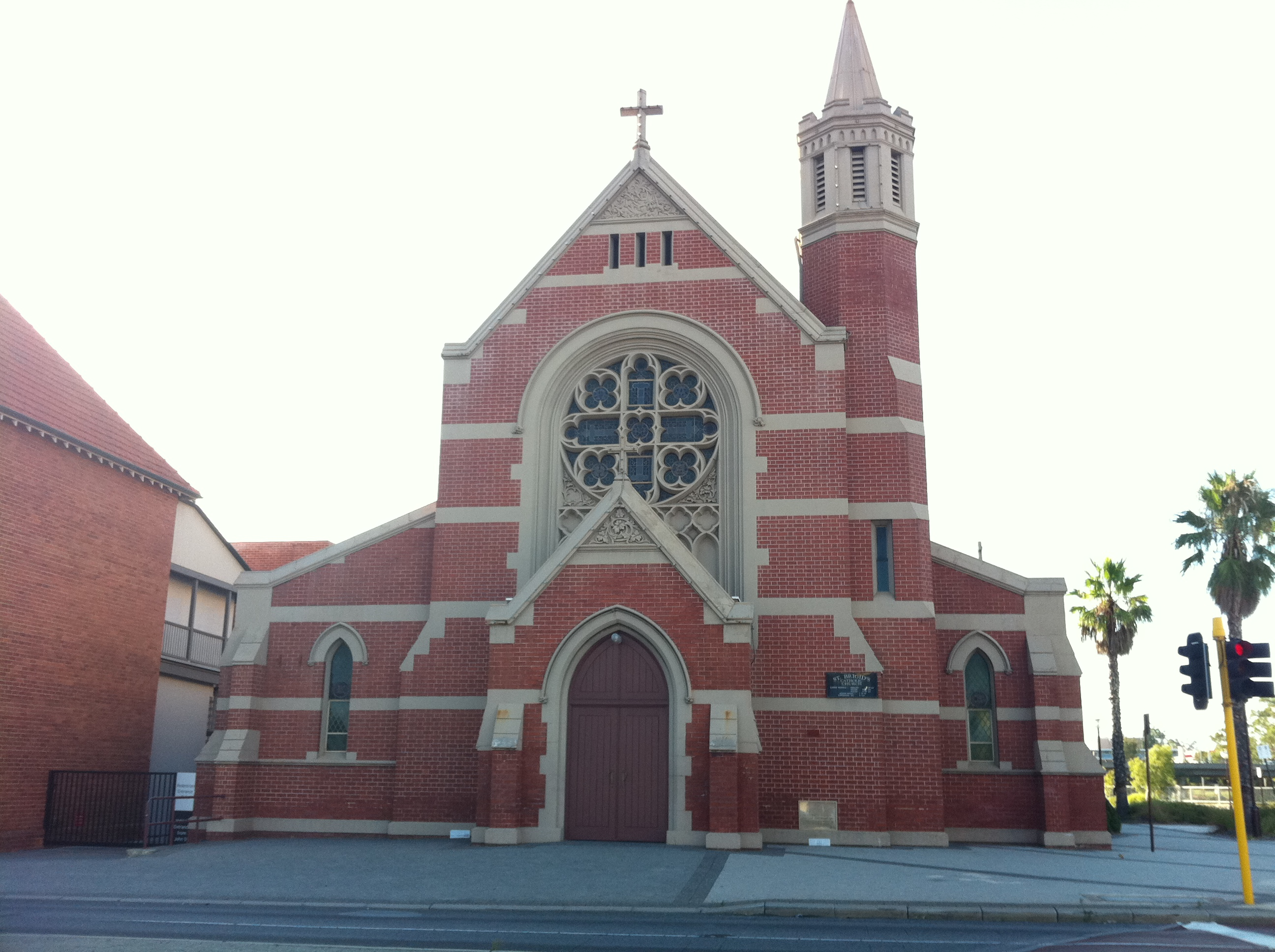 St Brigids Church, corner of Fitzgerald and Aberdeen Streets, Perth